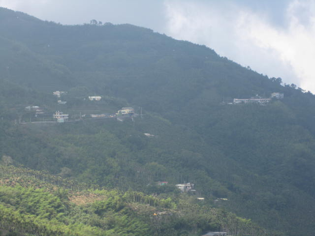 Longyanlin is a village of Meishan Township in Chiayi County,its located near the border of Yunlin and Chiayi.